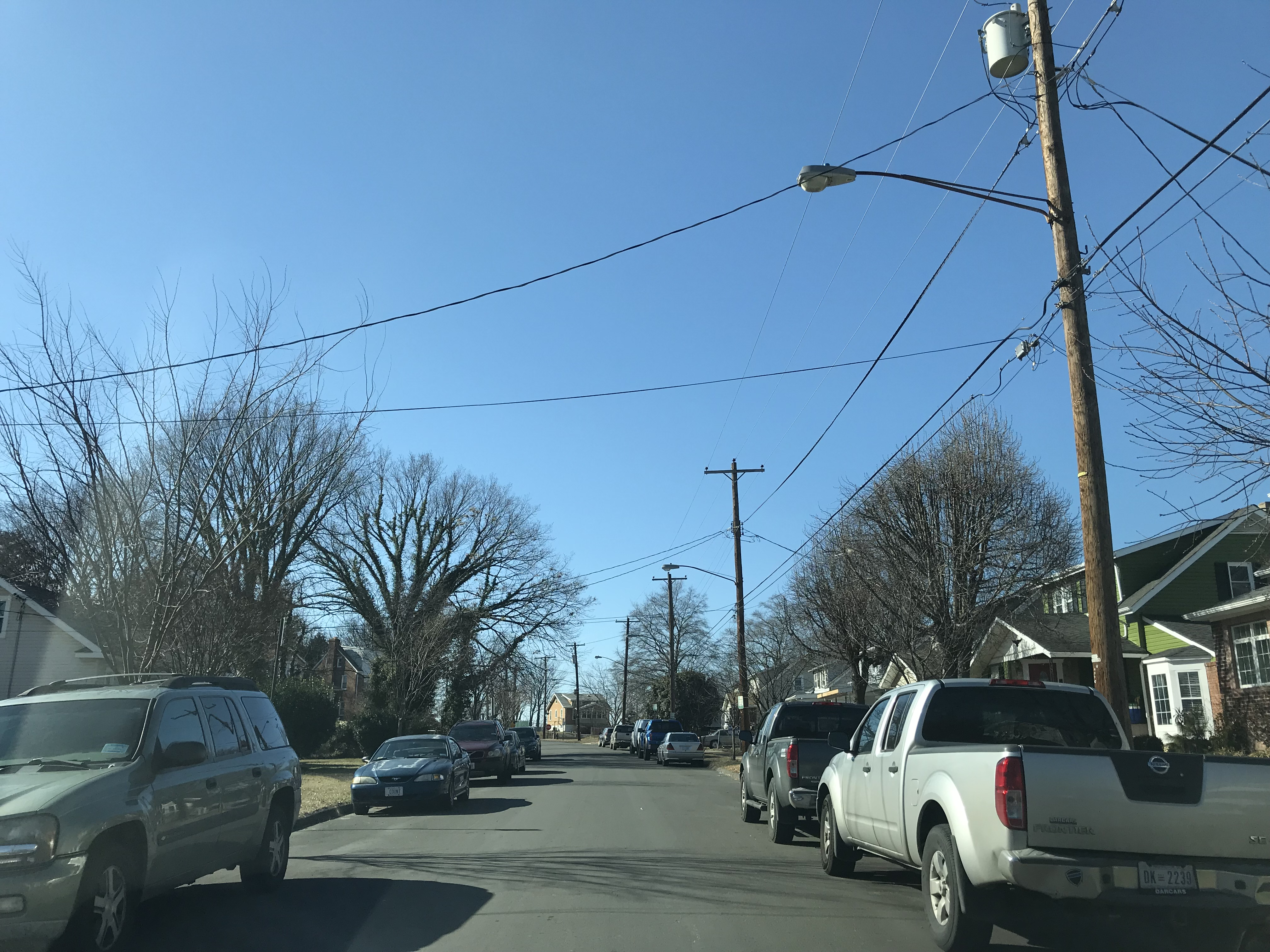 Looking west on Adams St. NE, in Gateway. February 2019